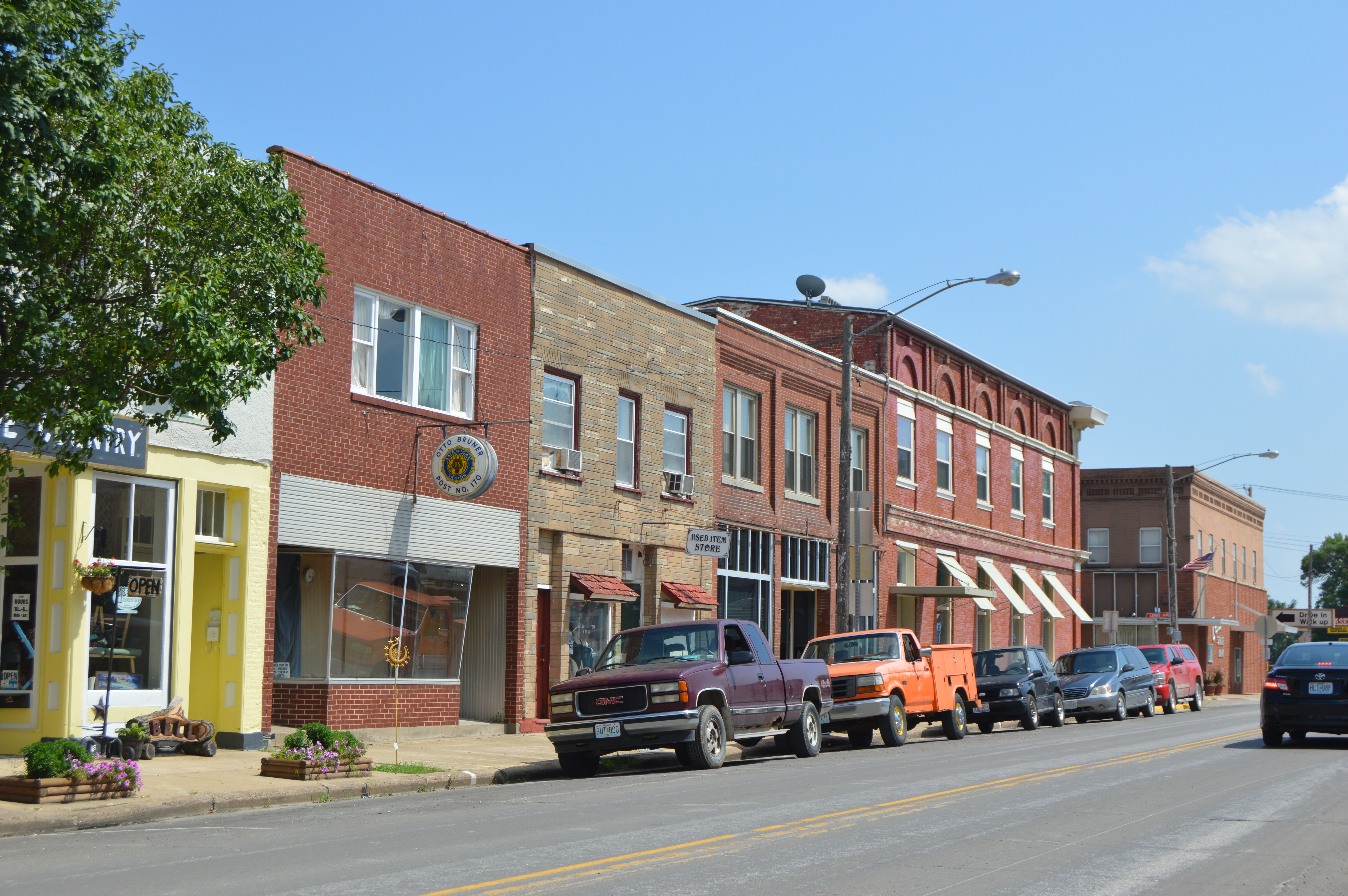 Buildings on the eastern side of Fourth Street (formerly U.S. Route 61) between Lewis and Clark Streets in downtown Canton, Missouri, United States.